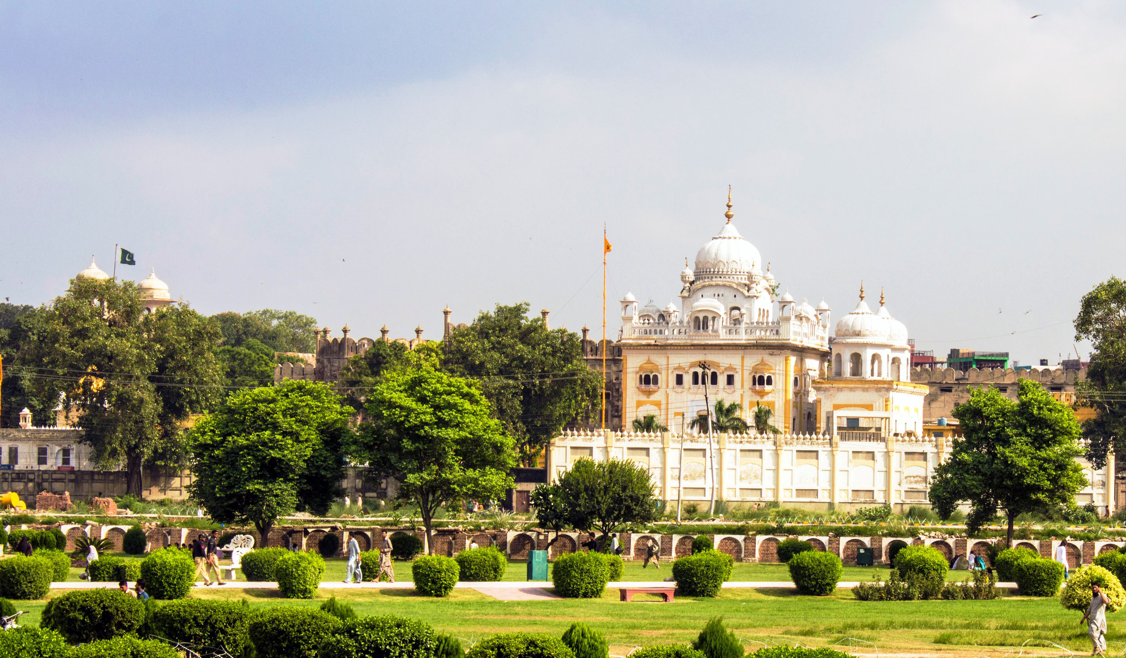 Samadhi of Ranjit Singh This is a photo of a monument in Pakistan identified as the PB-79